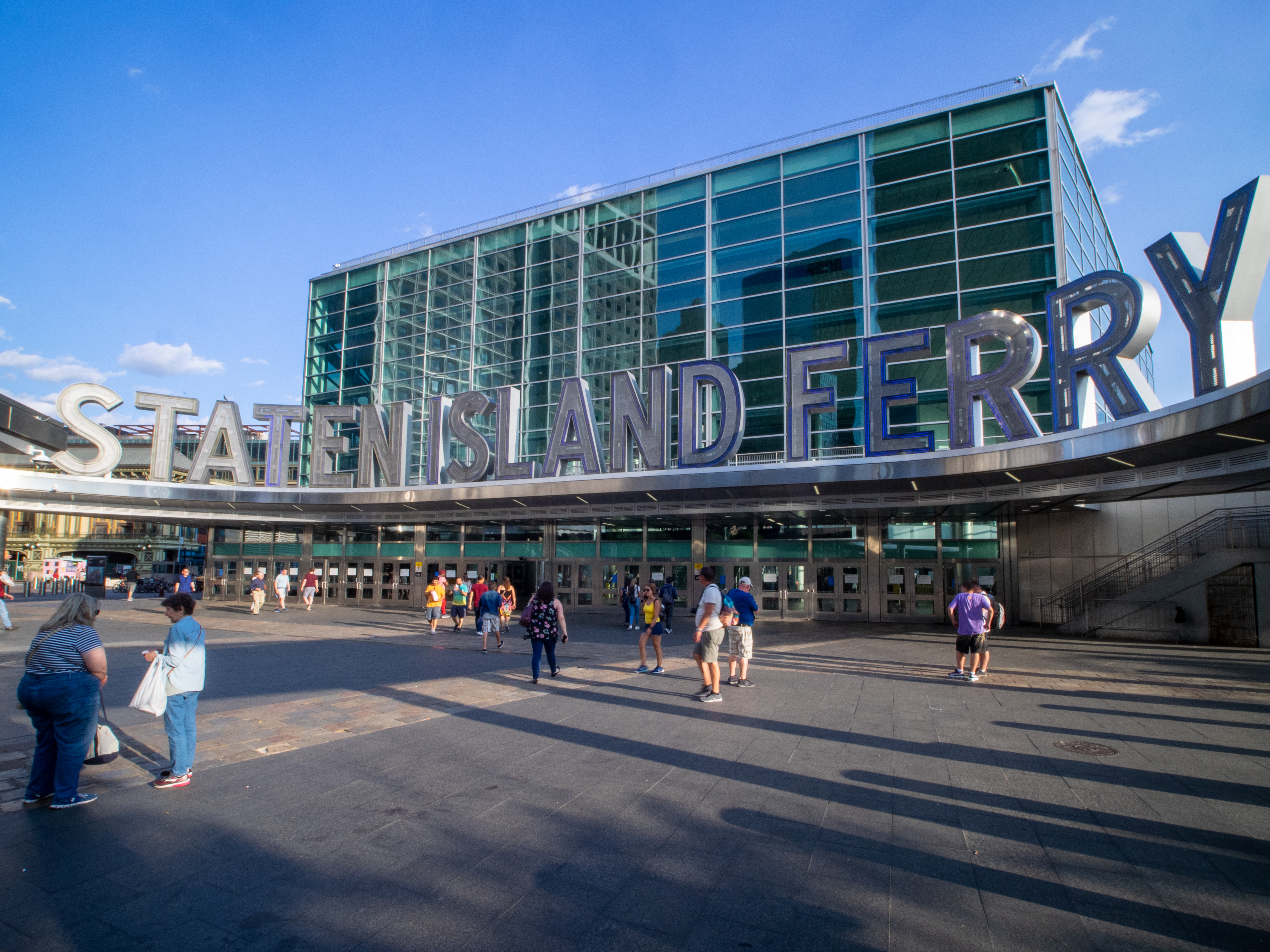 Financial District, NYC